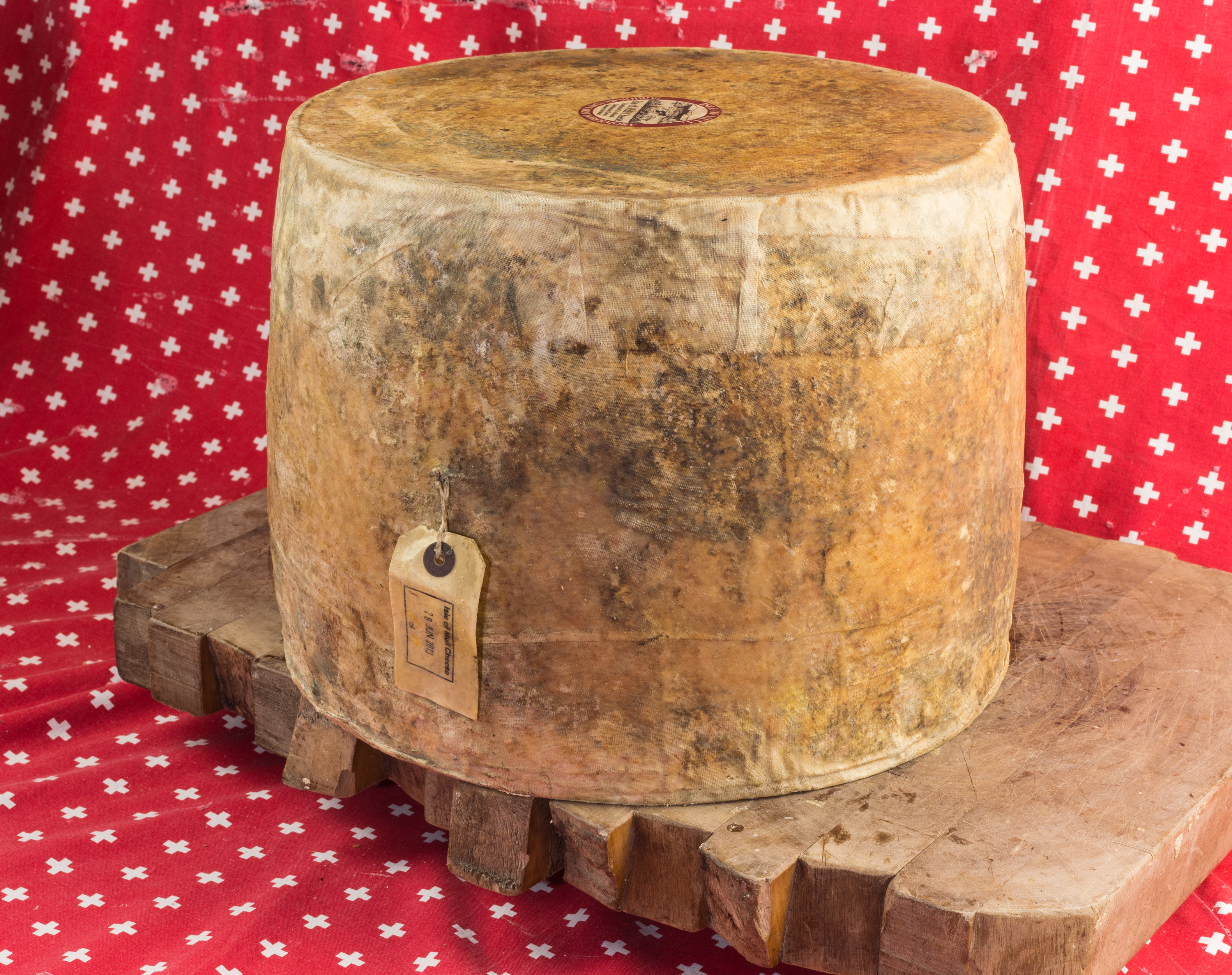 Farmhouse Cheddar, Isle of Mull Cheese, Sgriob-ruadh Farm (Gaelic: meaning "Red Furrow" and pronounced Ski-brooah), Tobermory Isle of Mull, Argyll and Bute. Traditionally made, matured for up to 18 months. Cloth bound cylinders of about 50 lbs.